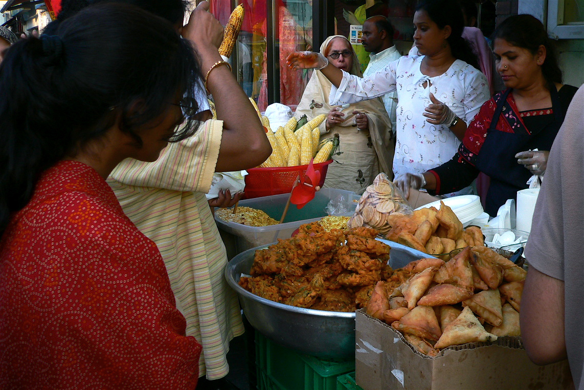 Samosas are the triangular folded ones to the front right with stuffing inside, while pakoras are batter mixed with veggies. Samosas and pakoras are fair, farmer market, festive occasion, party food in India. Little India, on Gerrard St., Toronto